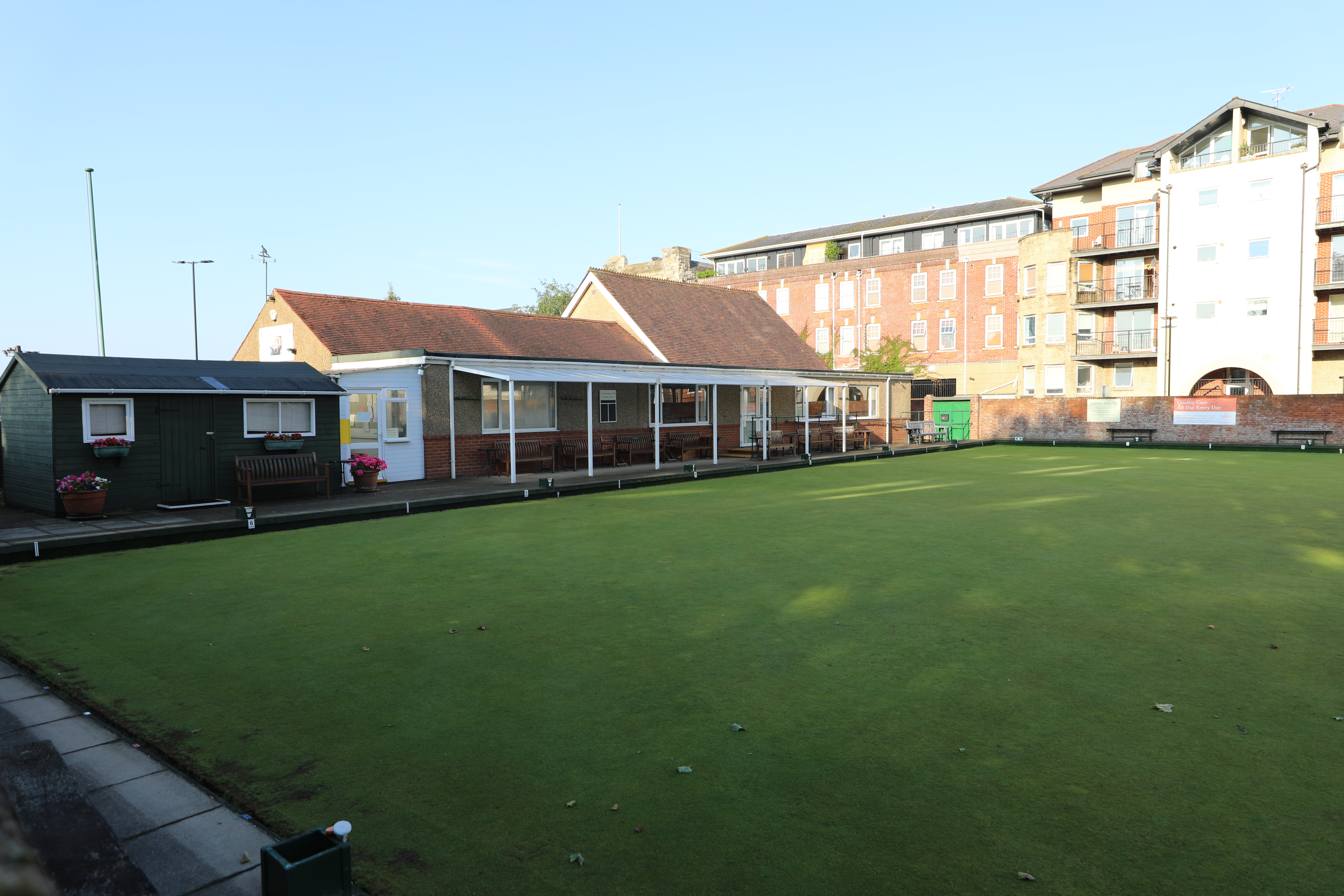 Photo of Southampton old bowling green